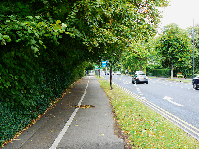 Lansdown Road to the east, Cheltenham The view is towards the town centre and shows the dedicated pedestrian, cycle and bus lanes.